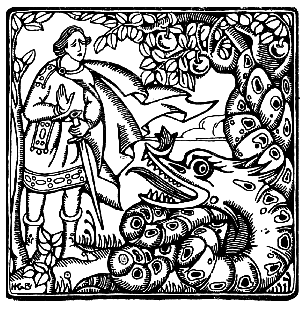 Engraving of a "fairy tale scene", featuring Prince Charming and a dragon (zmeu).